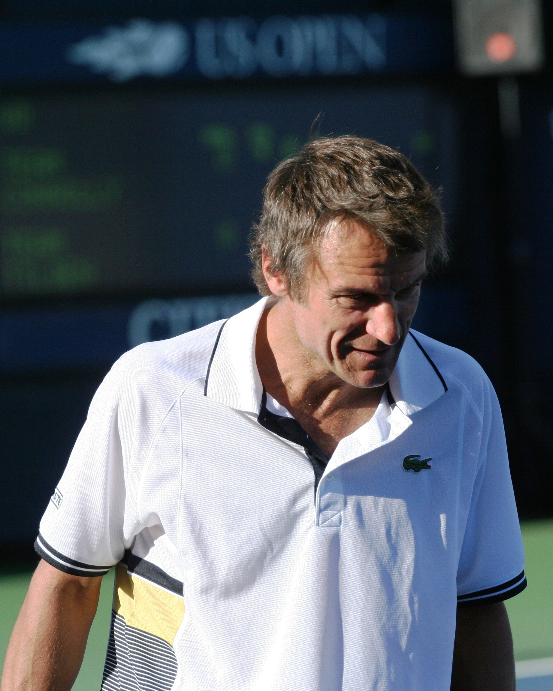 U.S. Open Champions Team Tennis Wednesday, Sept. 8, 2010